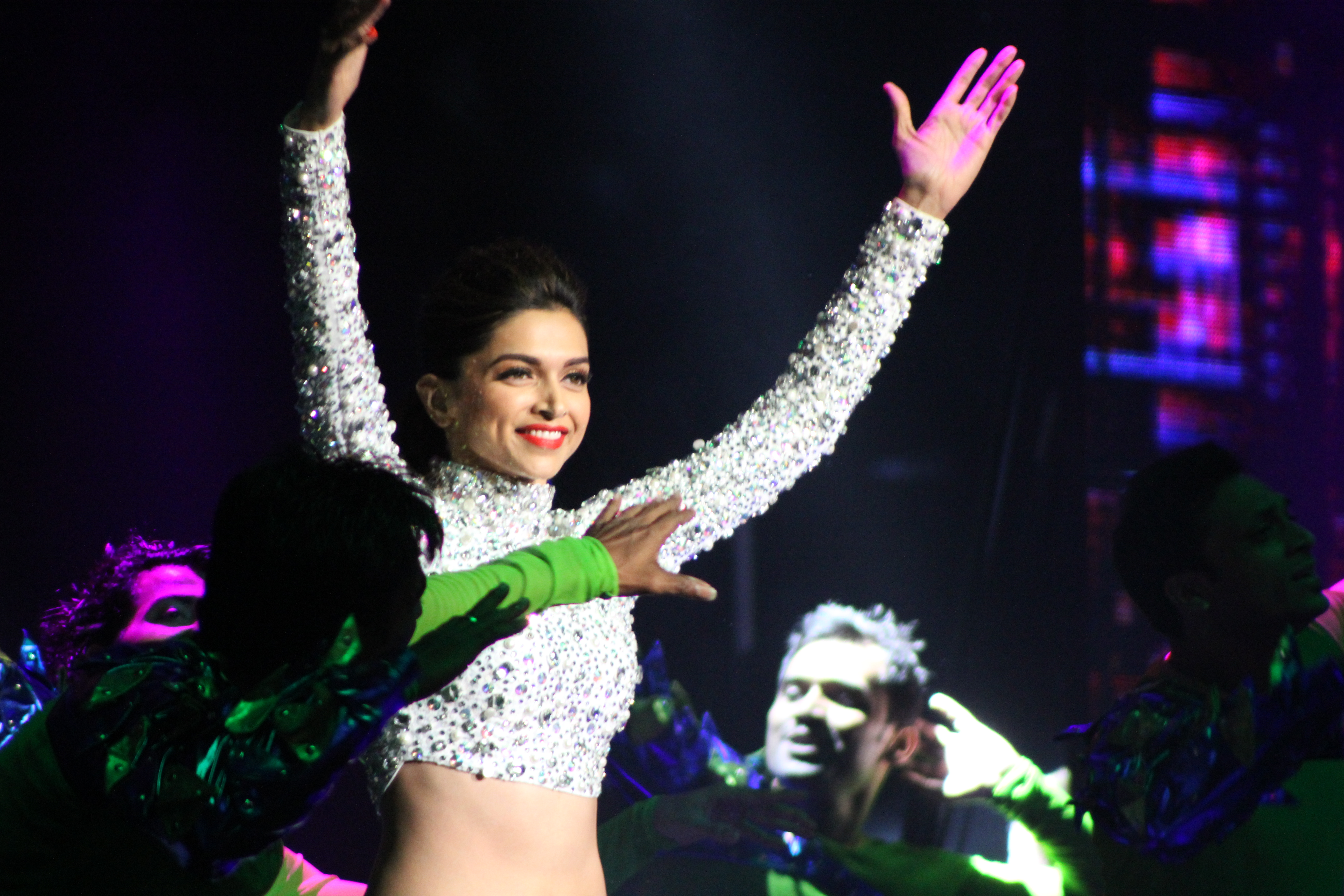 SLAM The Tour - 20 September 2014 - IZOD Center, East Rutherford, New Jersey. Photo by James C. Dooley